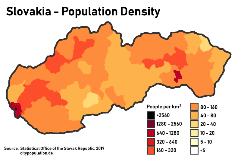 A map represtenting the population density in Slovakia, as of 01-01-2019